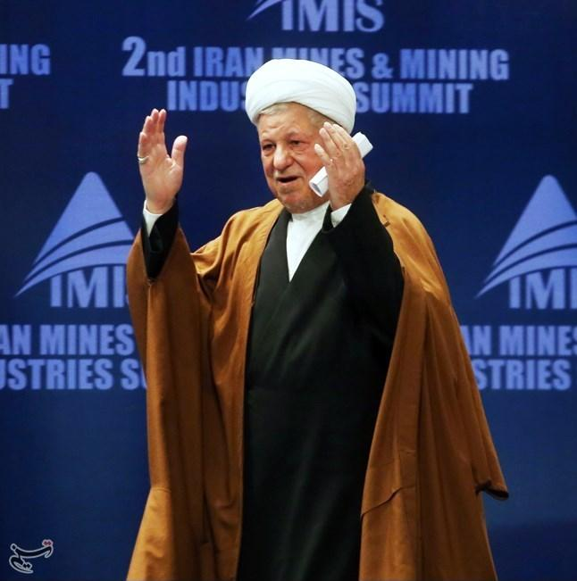 Iran's Ex-President Akbar Hashemi Rafsanjani Dies - TEHRAN (Tasnim) - Ex-Iranian president Akbar Hashemi Rafsanjani dies in hospital after suffering a heart attack.